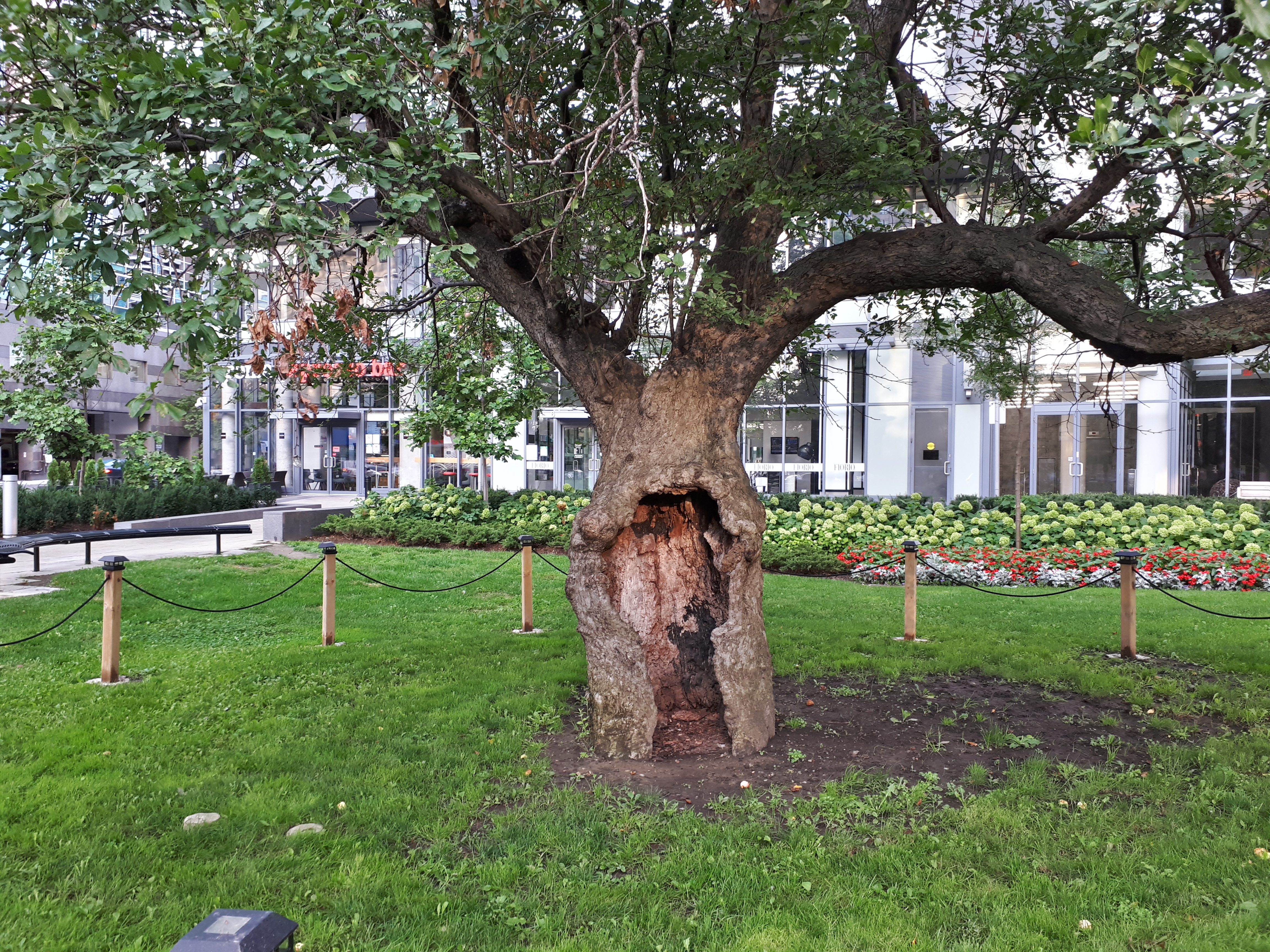 The tree has a large hole in the trunk. As of 2018, it still produces apples. David Gibson House in Toronto, Ontario. ID 2511 in the Ontario Heritage Trust Register. Please follow the link below to view David Gibson House in the Ontario Heritage Act Register database